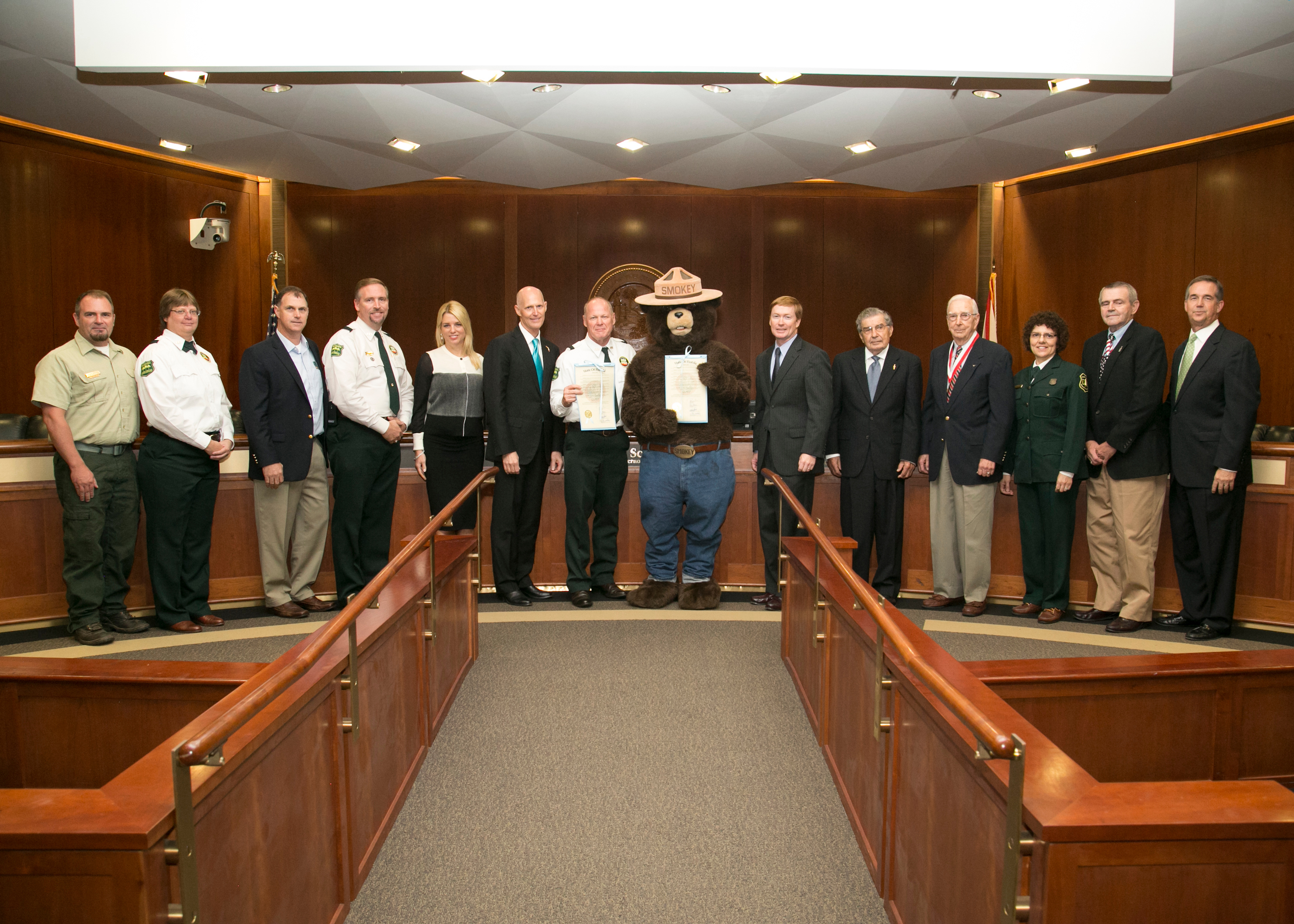 Rick Scott 08-19-2014 Cabinet Meeting